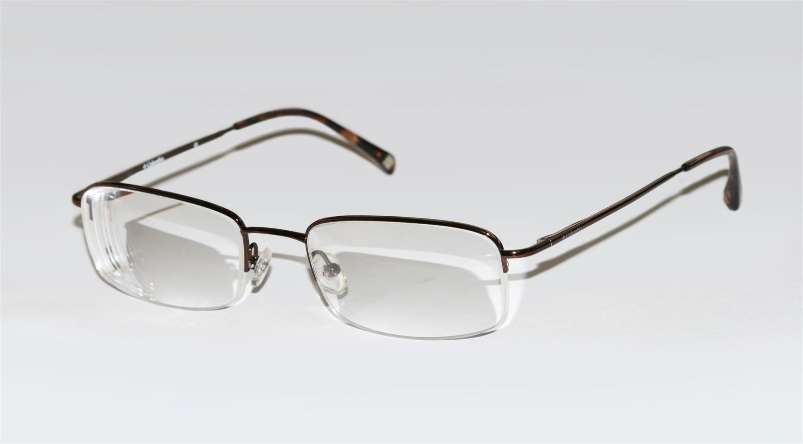 A modern pair of prescription glasses with a half rim design. The lens is held at the bottom by a high strength nylon string.